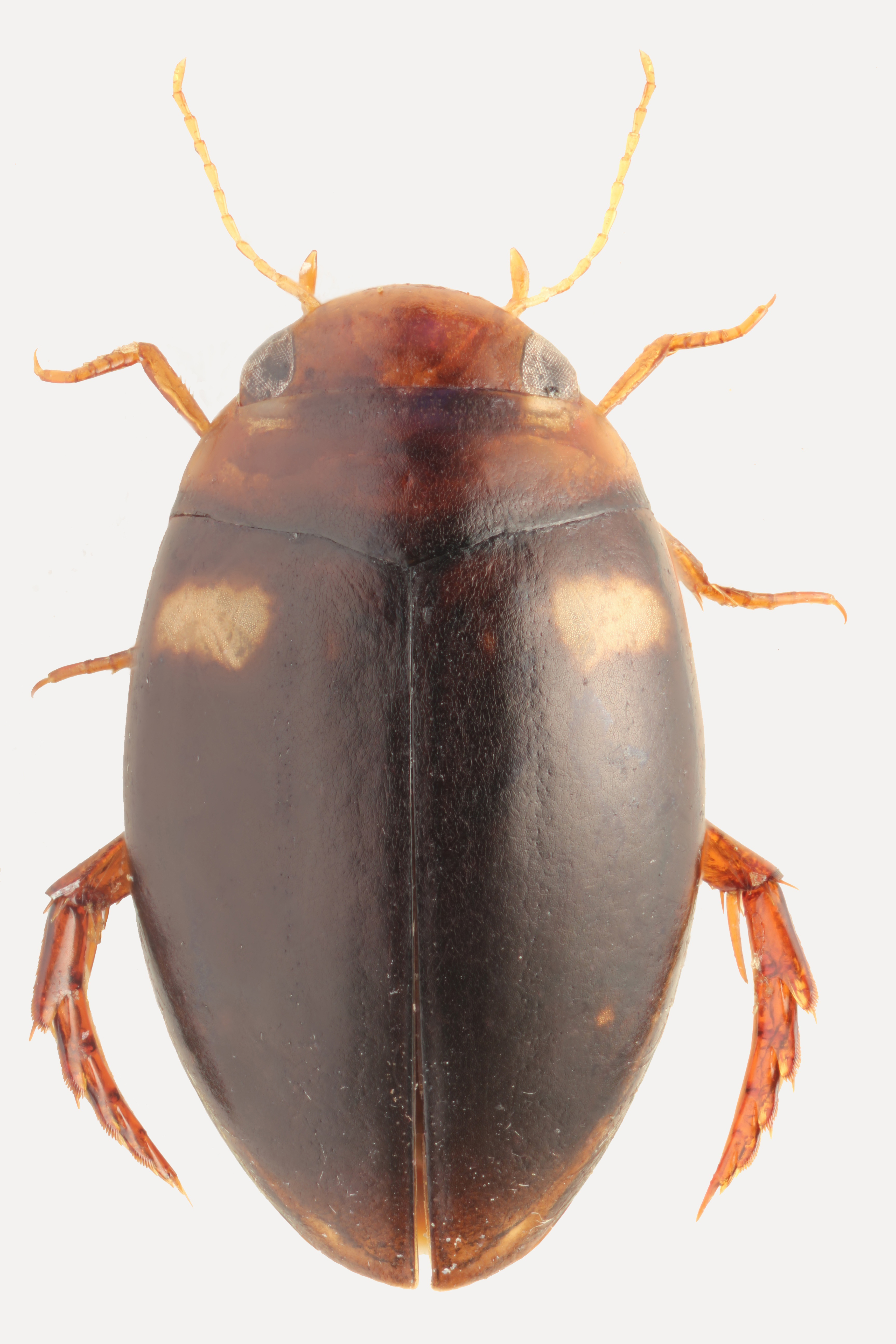 Dorsal habitus of Laccophilus maindroni from the United Arab Emirates